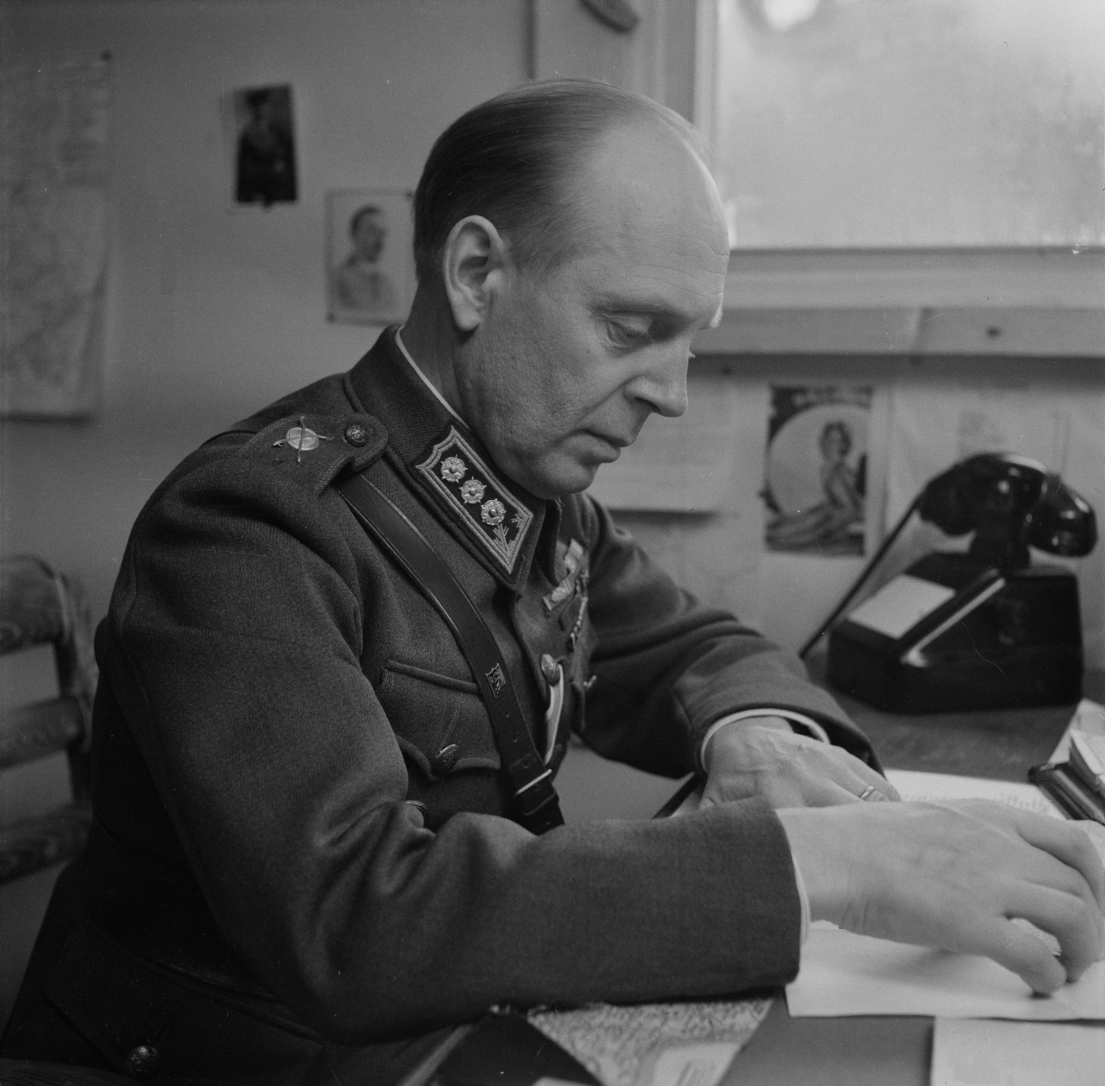 Commander of the Infantry Regiment 49, Colonel Ragnar Wahlbeck (1899-1944).